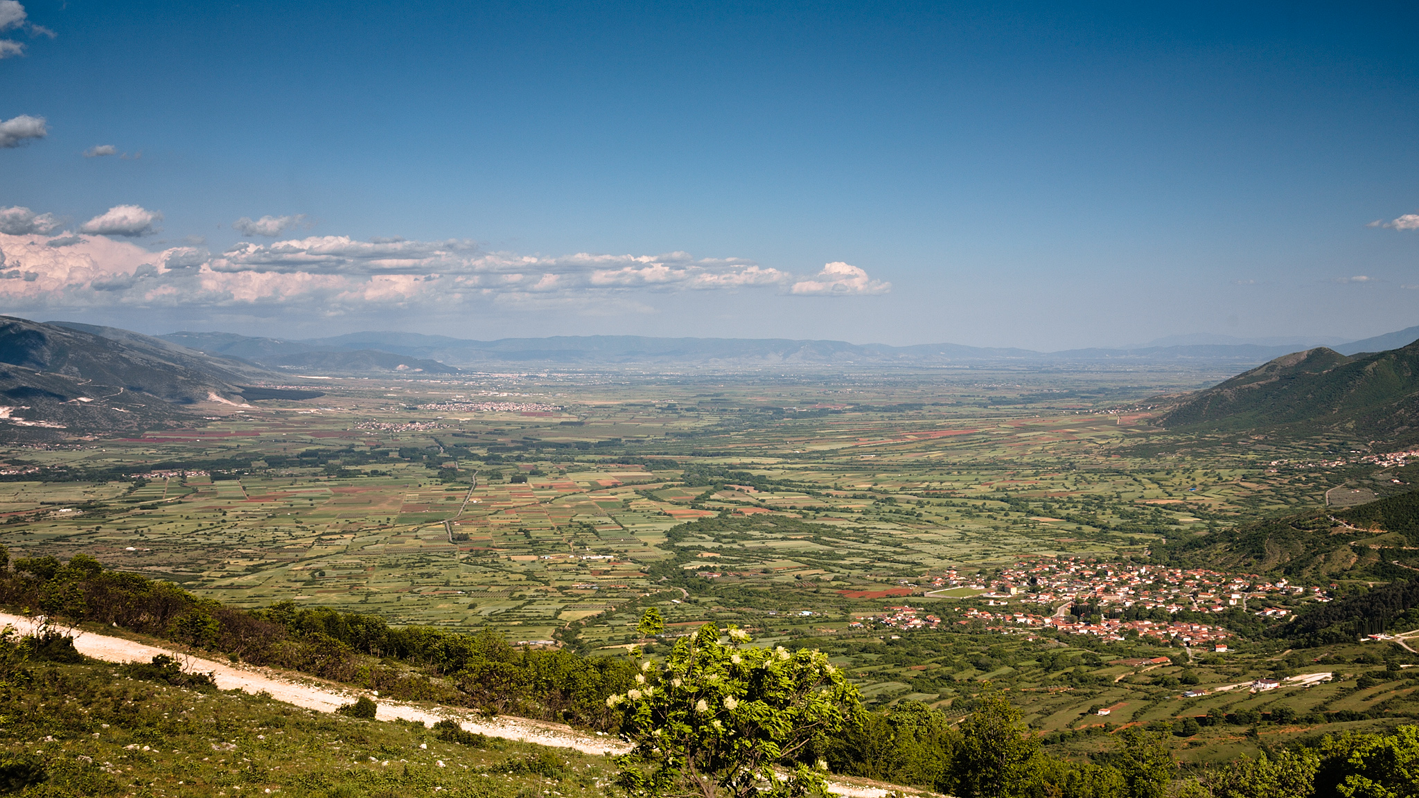 Drama Plain in Northern Greece